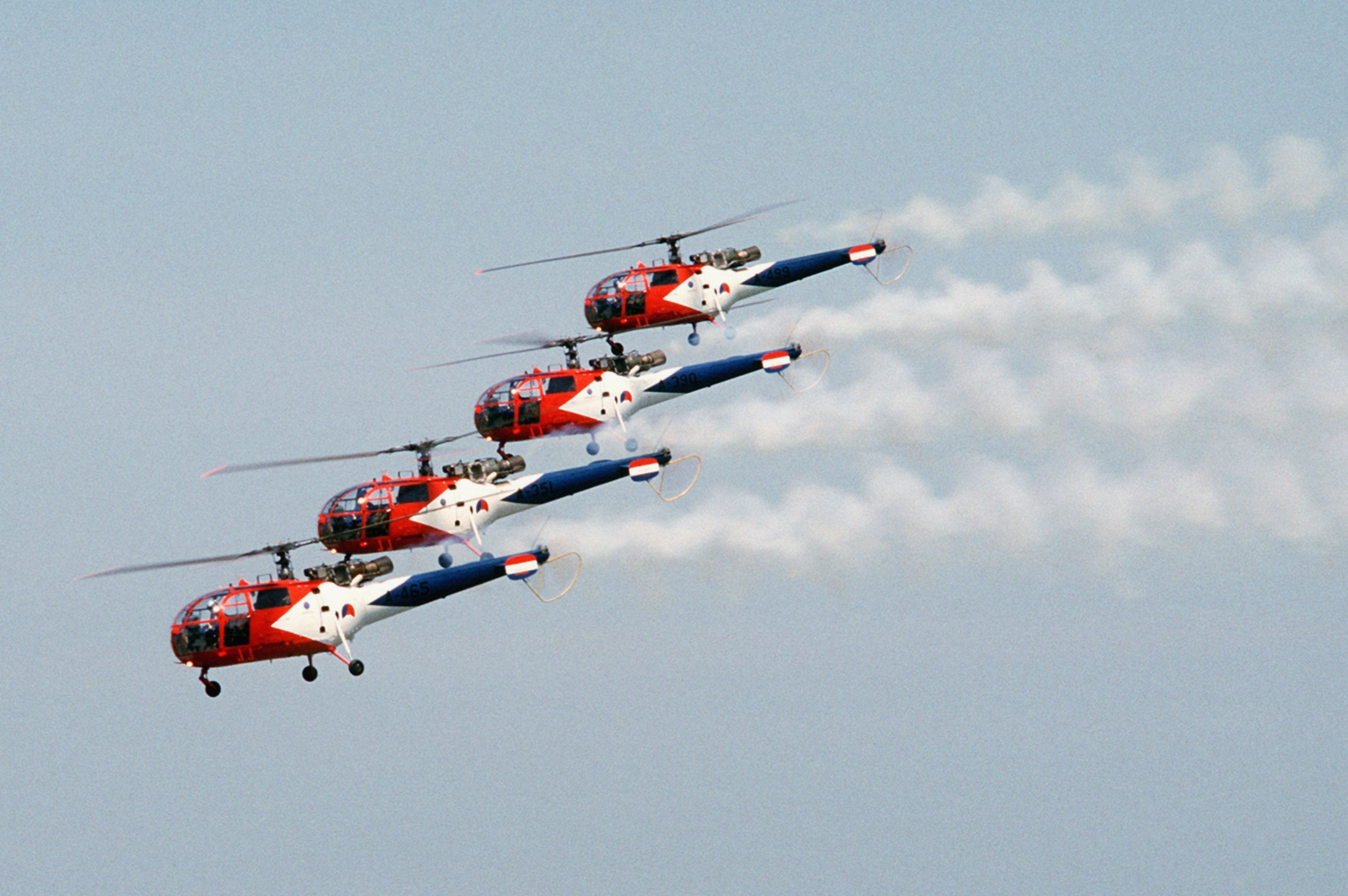 Four Alouette III helicopters from the Royal Netherlands Air Force Grasshoppers demonstration team fly in formation "Air Fete '84" at RAF Mildenhall, 9 June 1984.